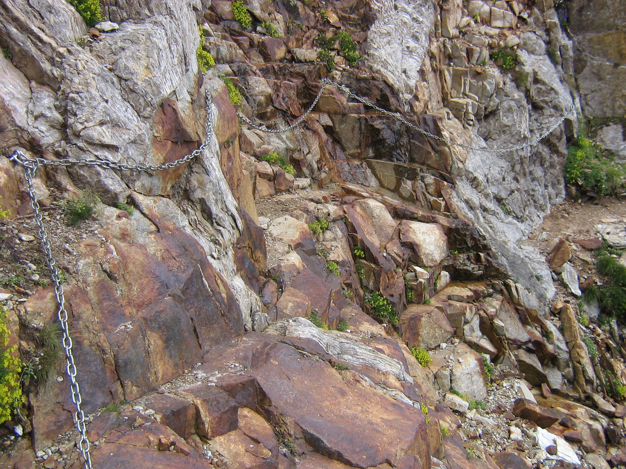 A kind of via ferrata on the normal route leading to Monte Frerone (Adamello)